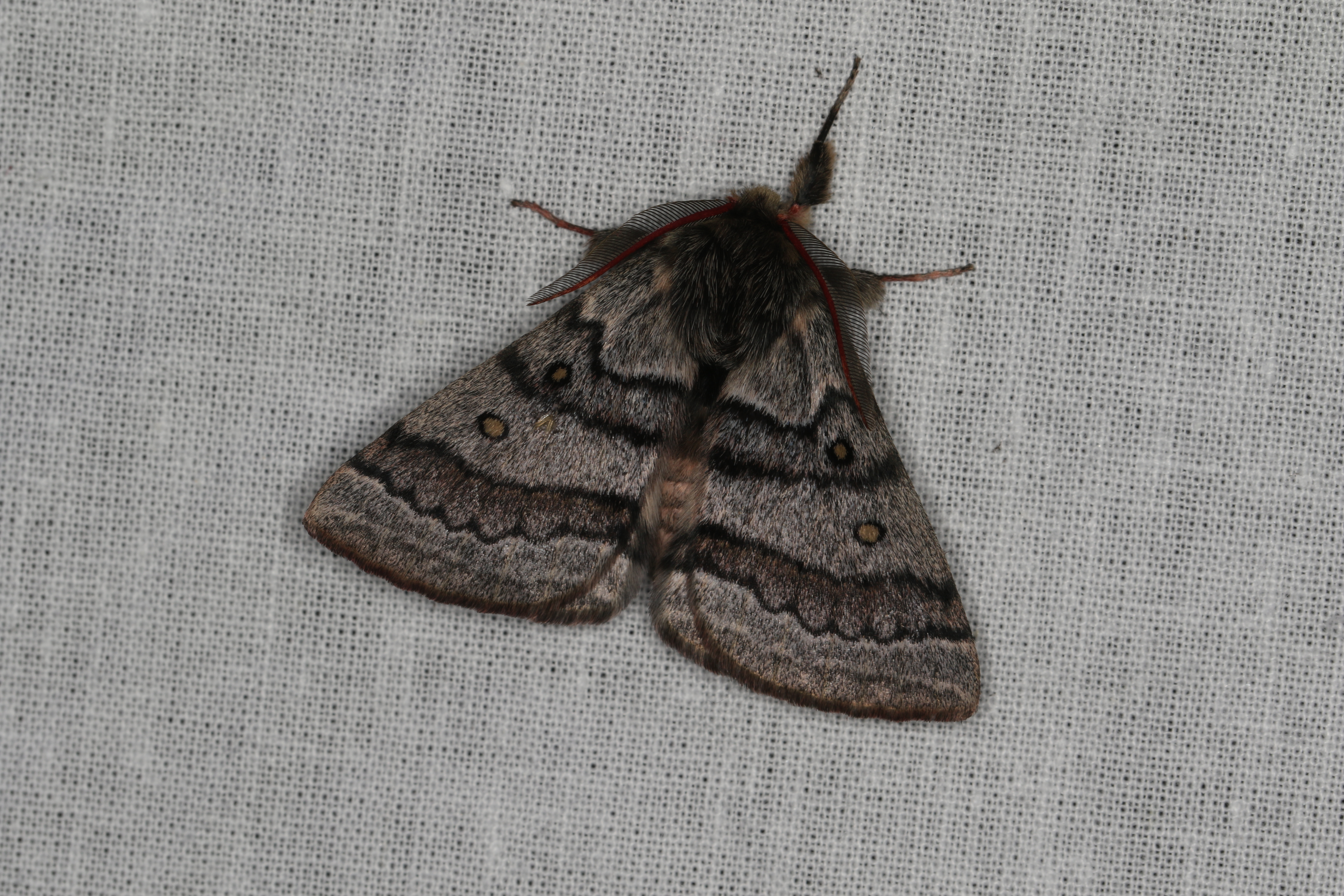 Anthela tetraphrica Turner 1921, to actinic light, Aldersyde, WA, 14 May 2016